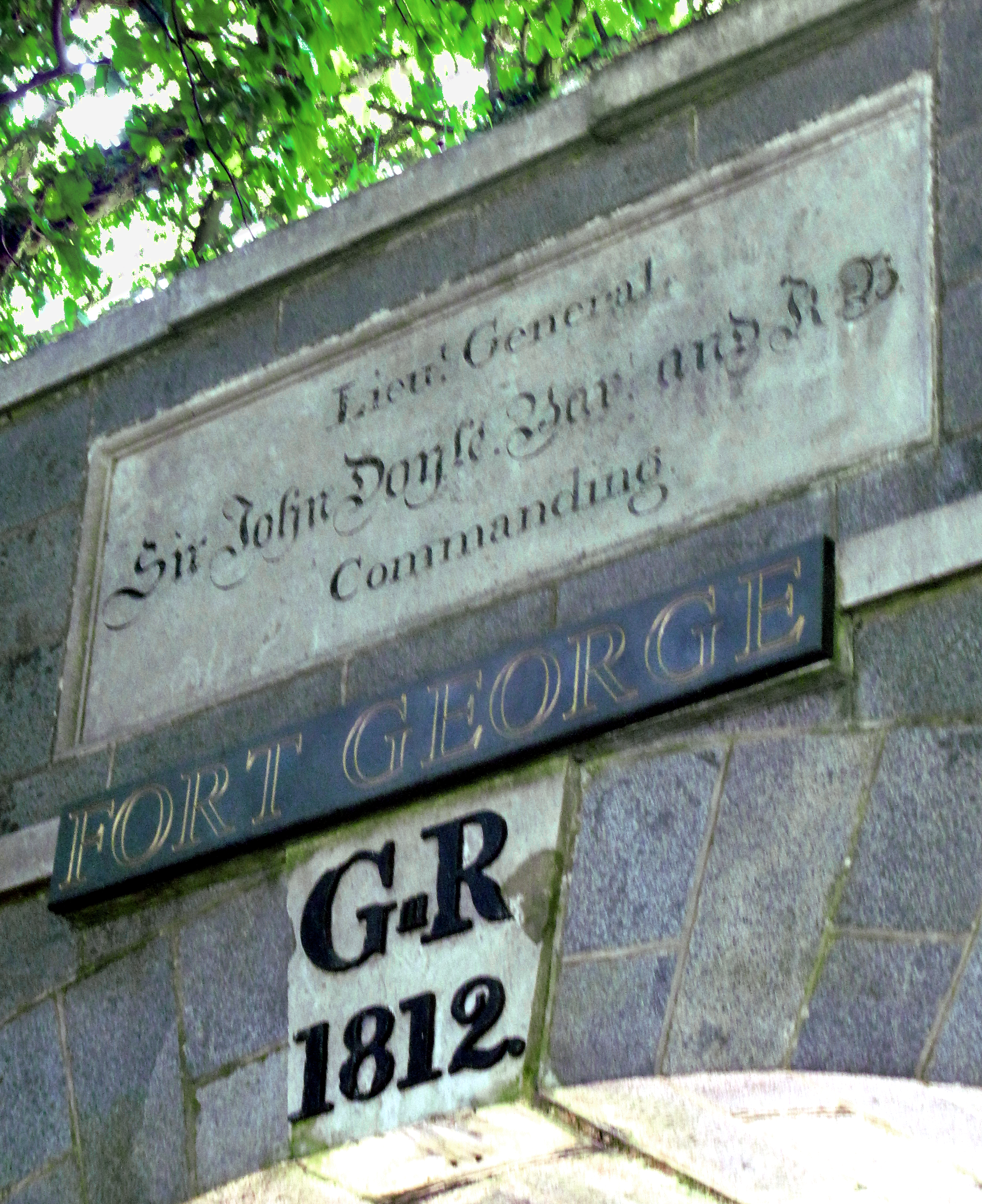 Guernsey, June-July 2011: sign at Fort George